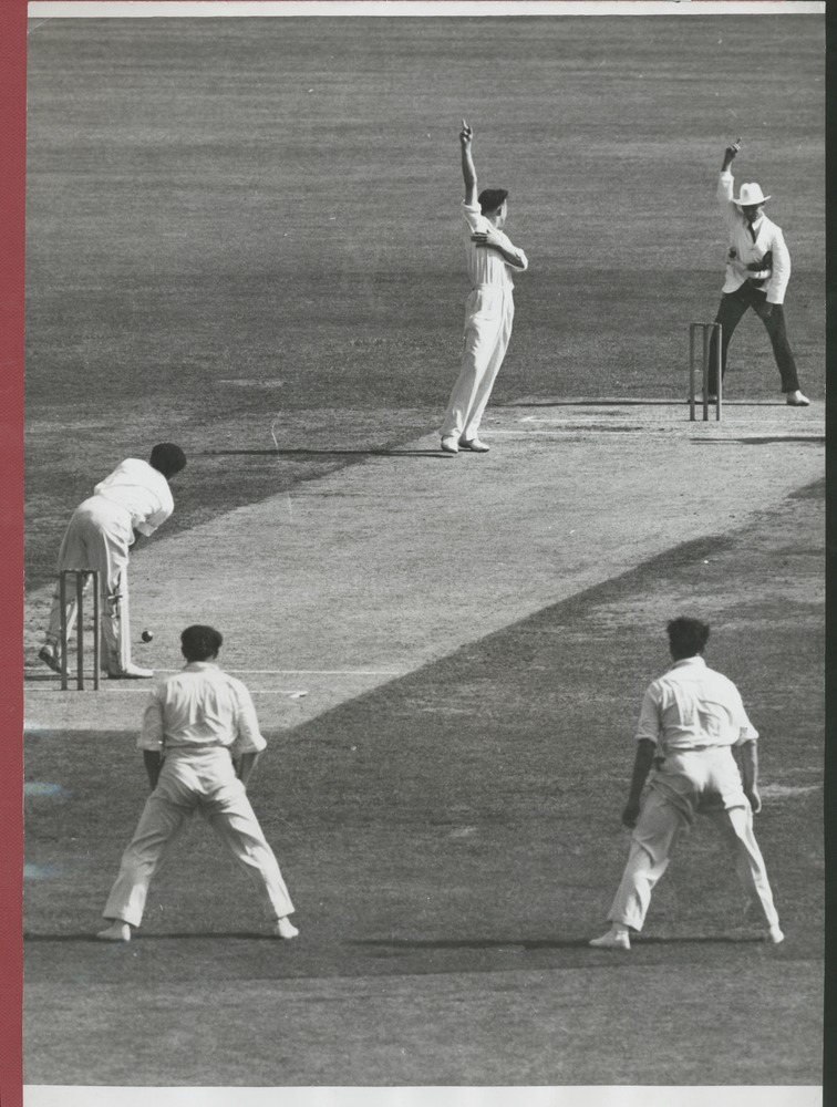 Adhikari out LBW to W. Johnston for 0. [2nd test, Sydney, Australia against India]